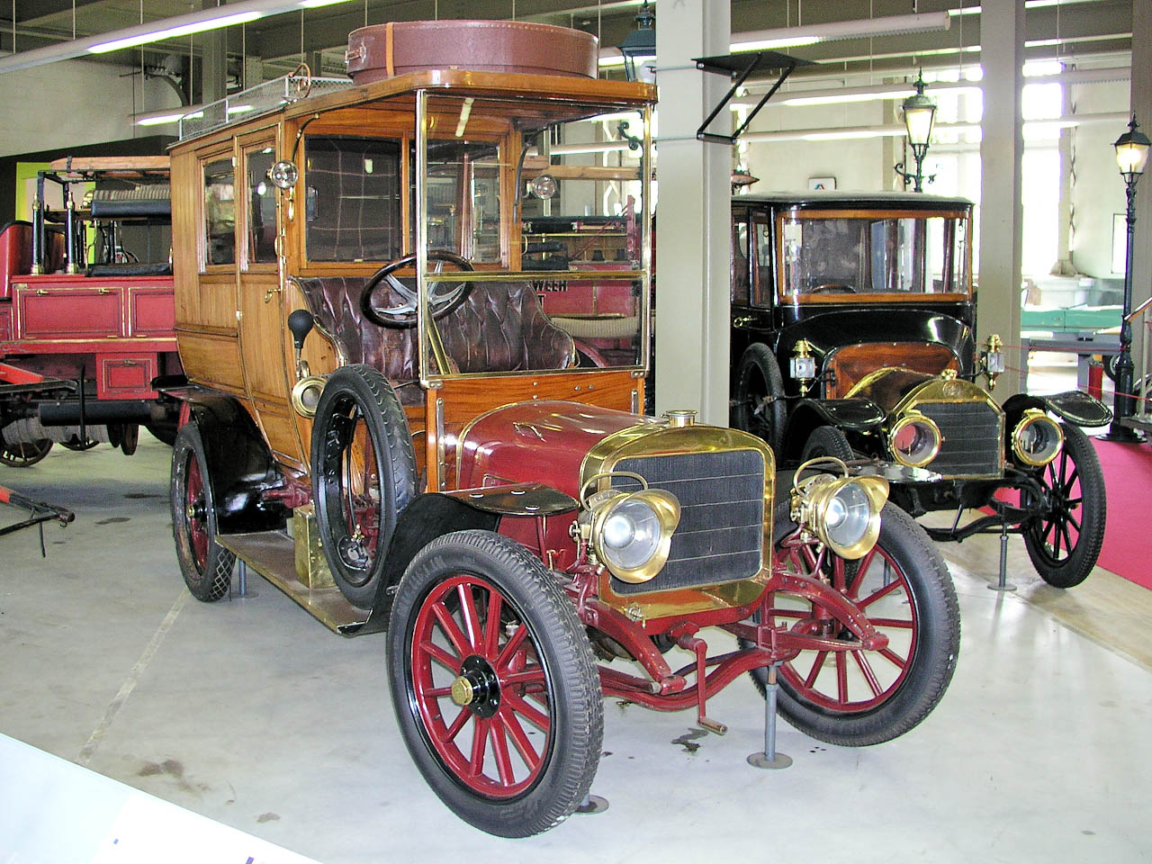 20/24 HP 4-cylinder car designed by Julien Potterat, made in Belgium by Automobiles Charles Fondu; right front-side view